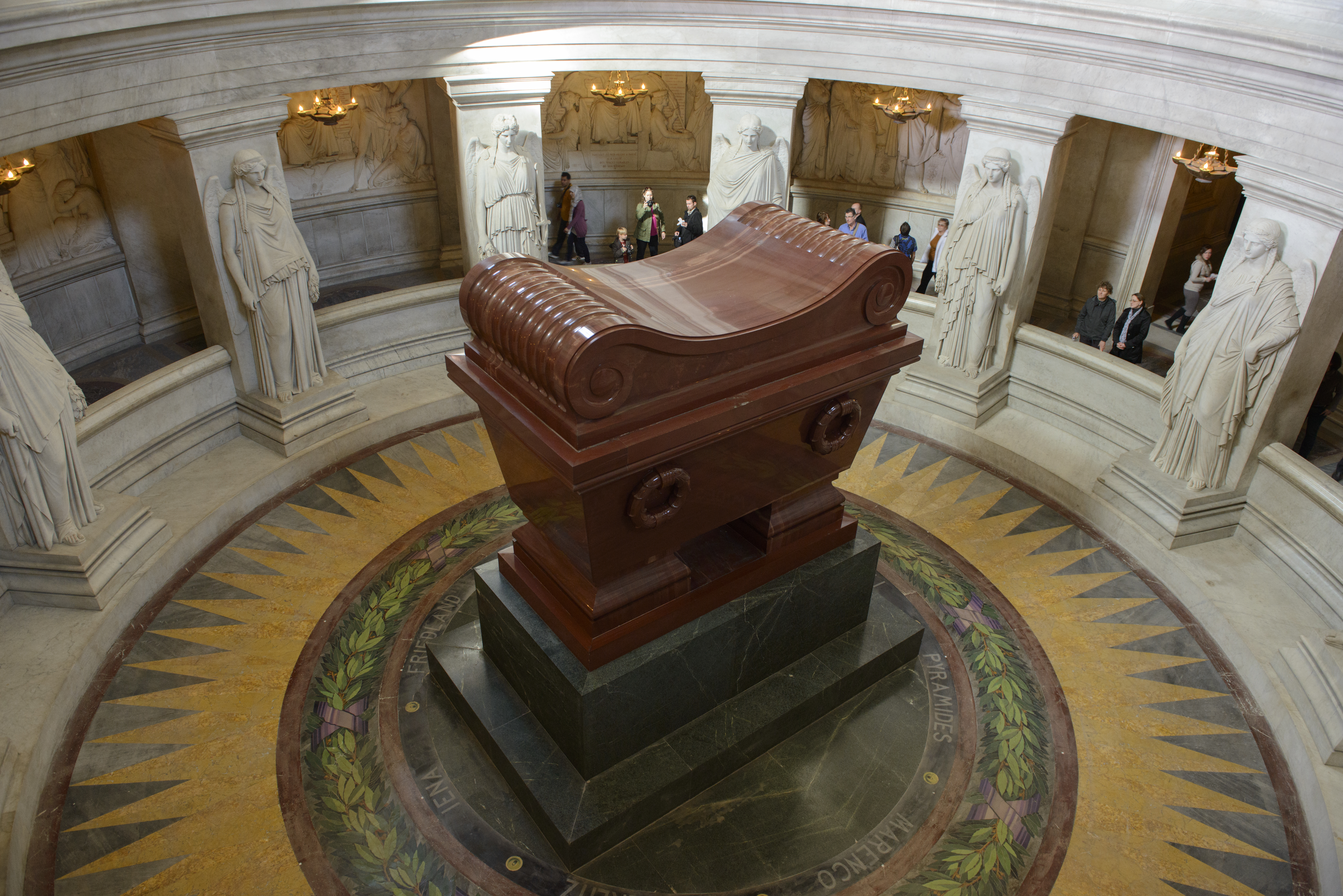 Tomb of Napoleon (Dôme des Invalides)